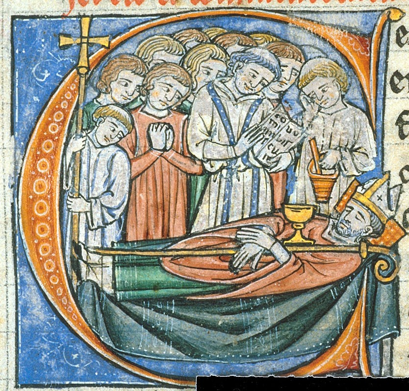 Deaths of Adhémar